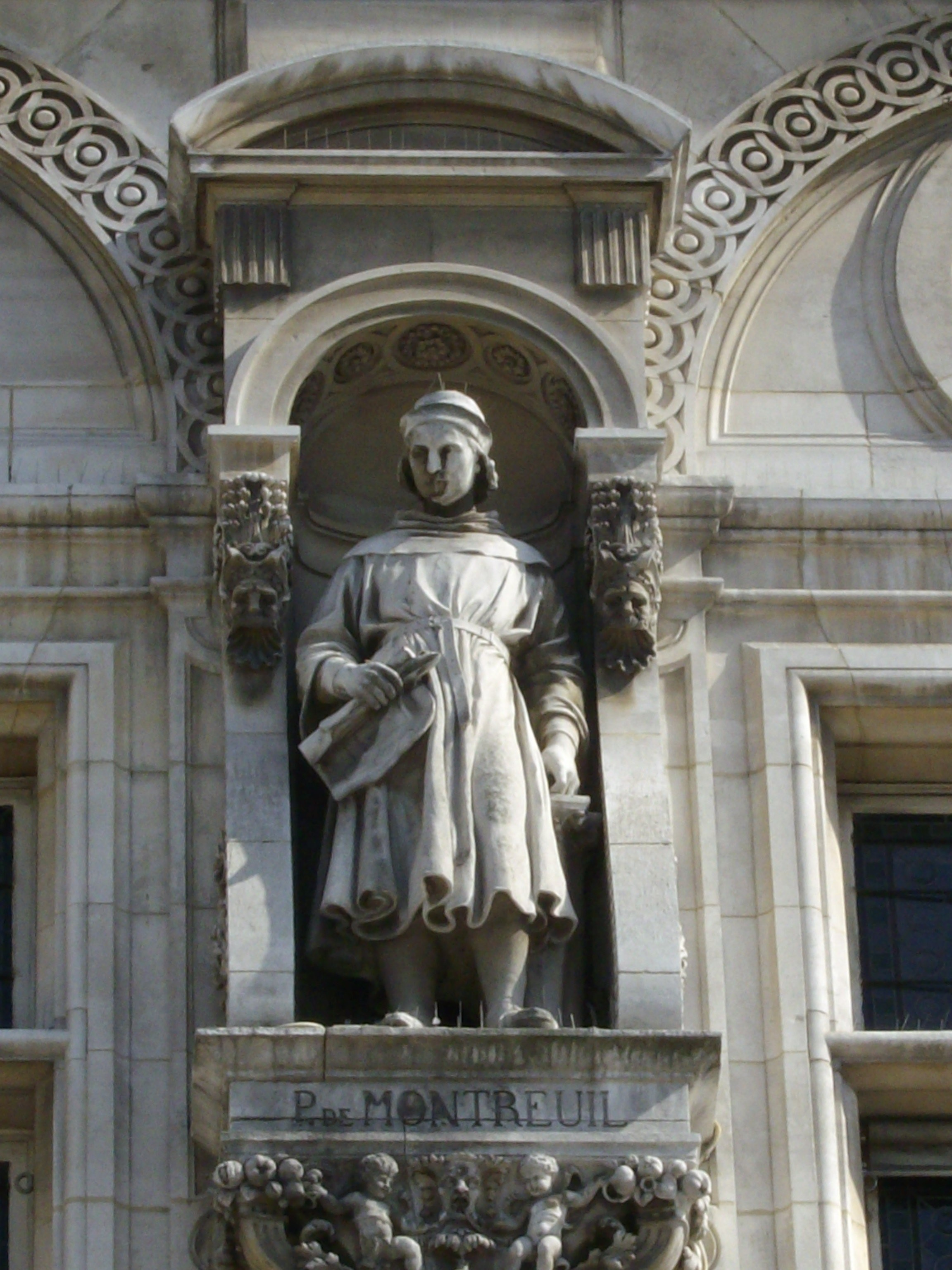 Statues of the City Hall in Paris, France